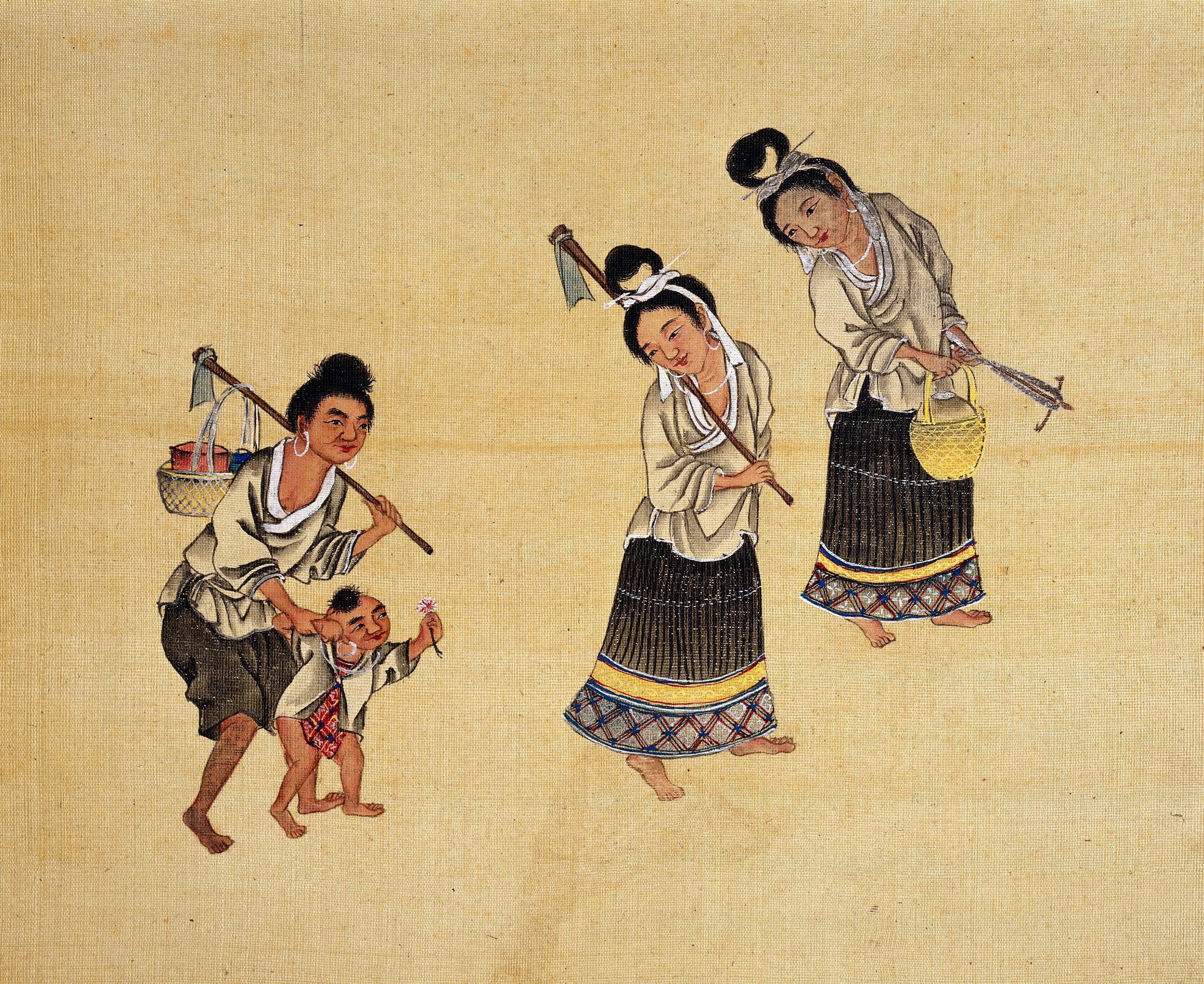 Madeng longjia Maio. Two women and one man with a child, of the Madeng ('Stirr-up') Miao tribe, on their way to the fields. The woman's hairdress accounts for the name of 'Stirr-up Miao' Asian Collection Keywords: tribes; miao album